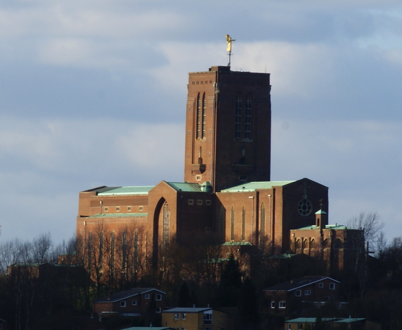 Guildford Cathedral Photographed from the viewpoint in front of Guildford Castle Keep. With Guildford Cathedral being virtually a mile away, a 135mm lens, with x2 in camera converter, was required for this shot.